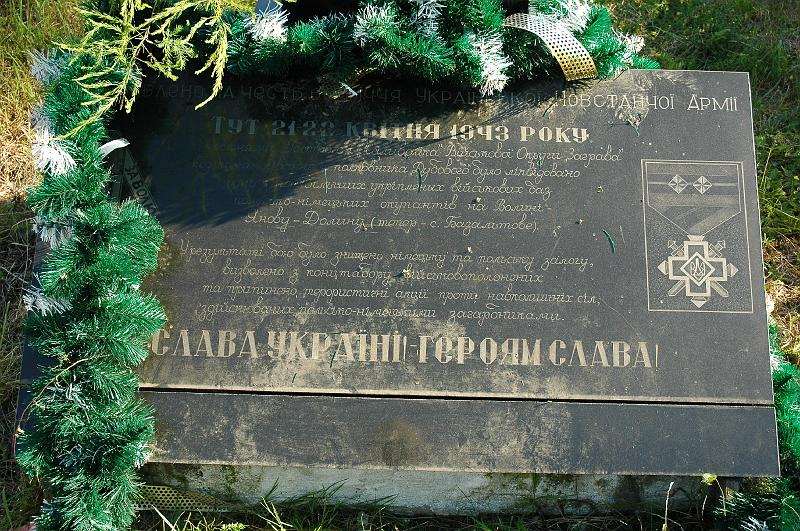 Monument of Ukrainian Insurgent Army (UPA) in Bazaltowe (former Janowa Dolina) in Wolyn. In this infamous UPA's "liberation fight" on 22-23 of April 1943, 600 Polish citizens of Janowa Dolina were killed.